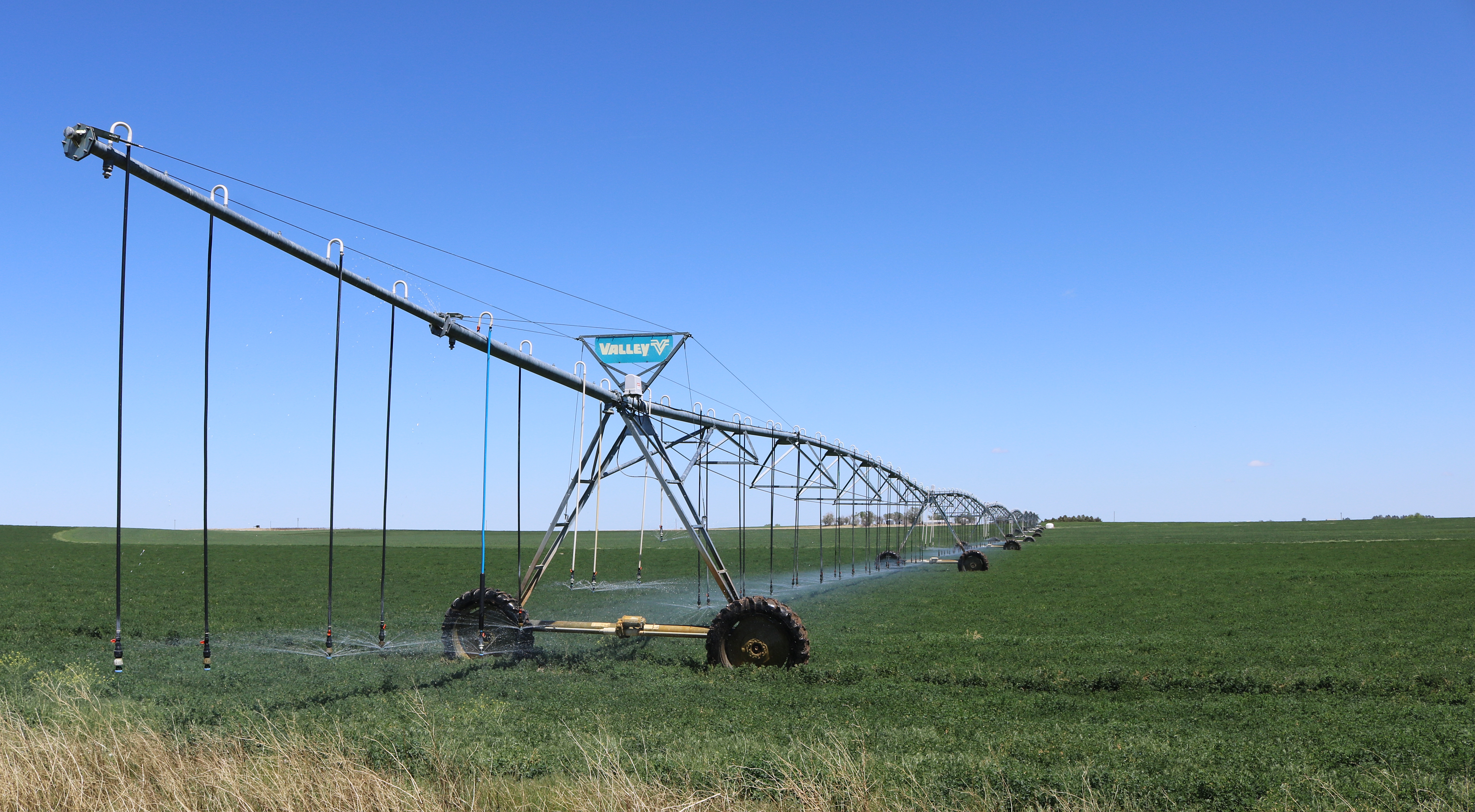 Center pivot irrigation in Adams County, Colorado.